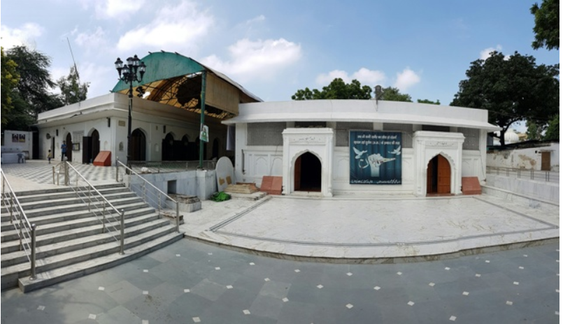 Imambargah in Delhi built around 1726 AD.